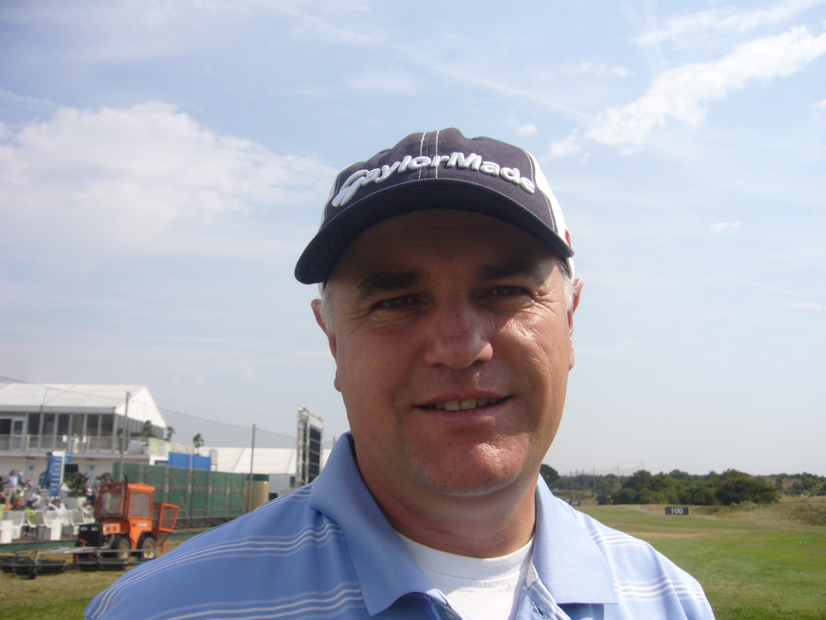 Stephen Dodd from Wales, golfer at KLM Open 2009